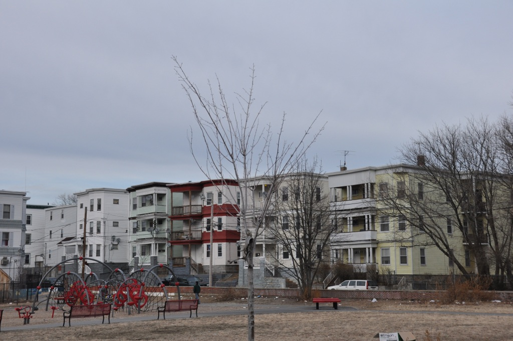 A row of three-decker mill housing in the Arlington-Basswood Historic District of Lawrence, Massachusetts.